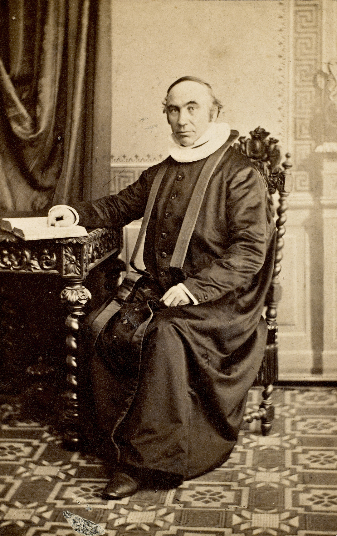 Motiv / Motif: Visittkort / Carte de visite Dato / Date: ca 1865 Fotograf / Photographer: Olsen & Thomsens Photographiske Atelier (Christiania), from the photographer can be identified as P.M. Thomsen Sted / Place: Oslo Eier / Owner Institution: Nasjonalbiblioteket / National Library of Norway Lenke / Link: Bildesignatur / Image Number: blds_00853